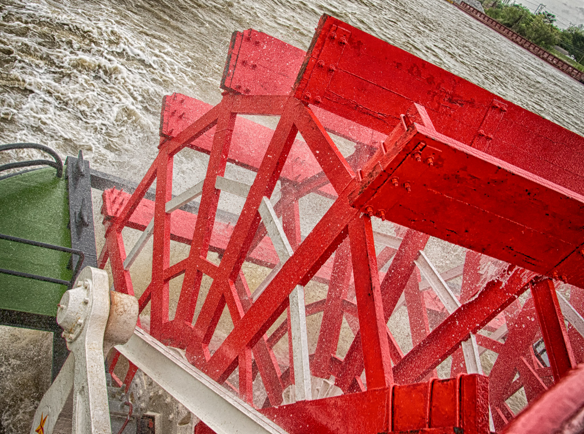 Paddle wheel on the Steamboat Natchez, which was built in 1975. The boat is powered by a steam-powered rear paddle wheel. The Natchez sails from the French Quarter in New Orleans, Louisiana.